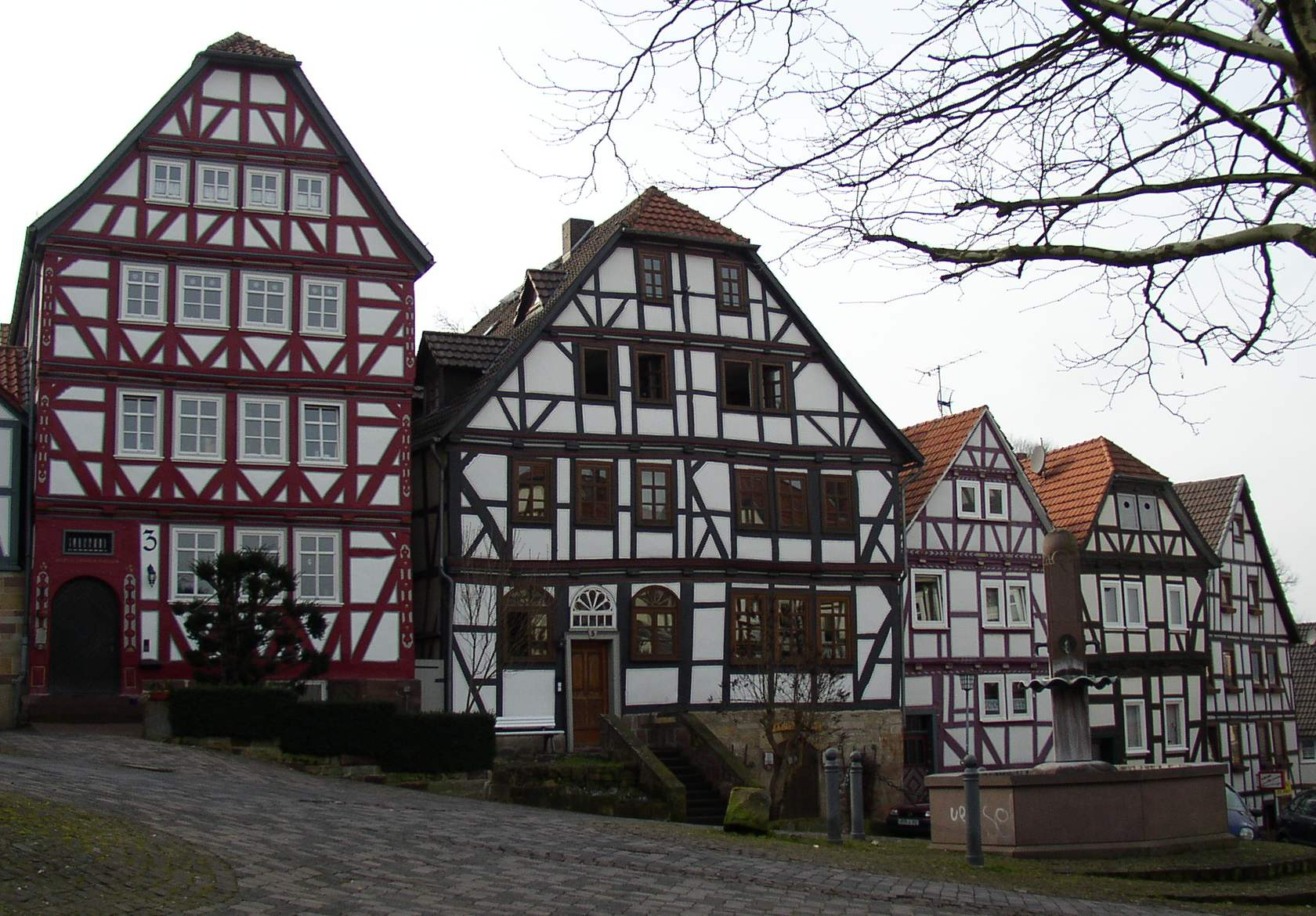 Old market place in Gudensberg in Hesse, Germany